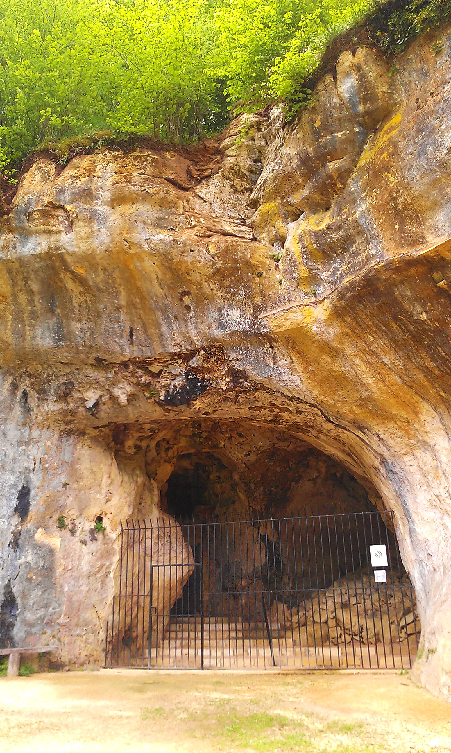 Entrance to Les Combarelles in Dordogne, Southwestern France.